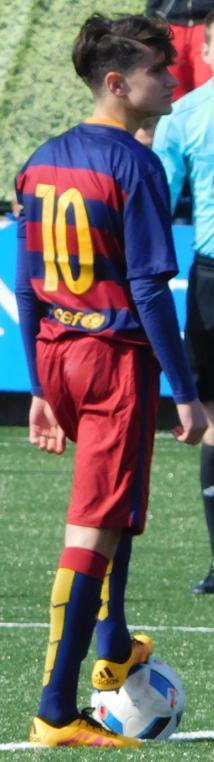 Álex Collado as youth player of FC Barcelona, while playing at the Future Cup 2016.